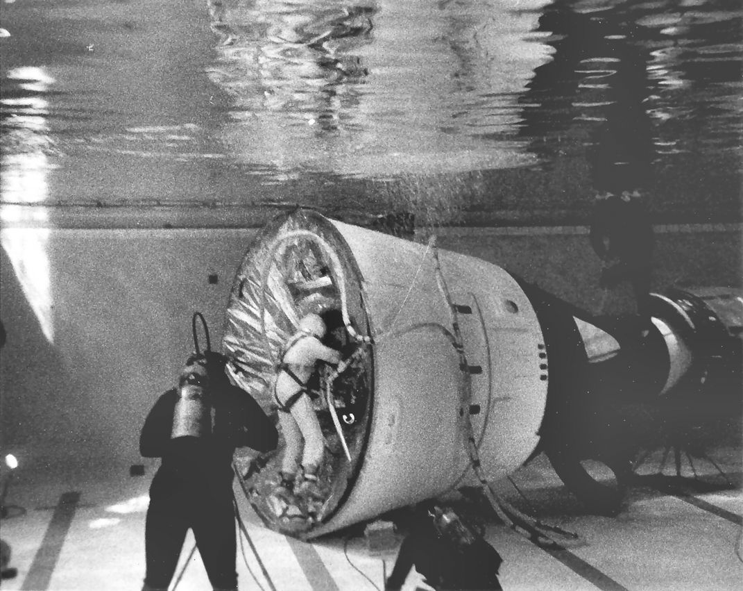 Buzz Aldrin (in white) works on a Gemini mockup in the McDonogh School’s pool (photo courtesy of NASA).